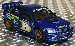 Autoart modelauto van een Subaru Impreza World Rally Championship (2003 model, Rally of France)